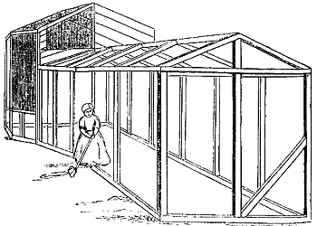 Drawing of O. G. Reylander's 1862 studio on Malden Road, London. It was sort of a greenhouse, with clear and matte glass combining to a desired mix of direct and diffused light. Total length 30ft, width tapers from 11 to 7 ft.